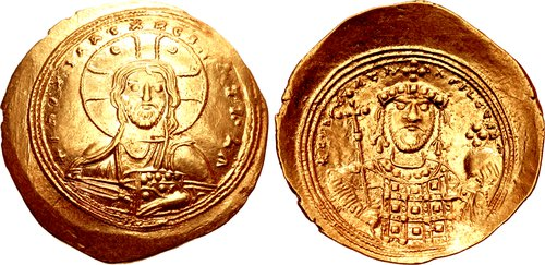 Constantine IX Monomachus. 1042-1055. AV Histamenon Nomisma (26mm, 4.43 g, 6h). Constantinople mint. Facing bust of Christ Pantokrator; crescents in upper quarters of nimbus / Crowned facing bust of Constantine, wearing loros, holding cruciform scepter and globus cruciger. DOC 3; SB 1830. Choice EF.